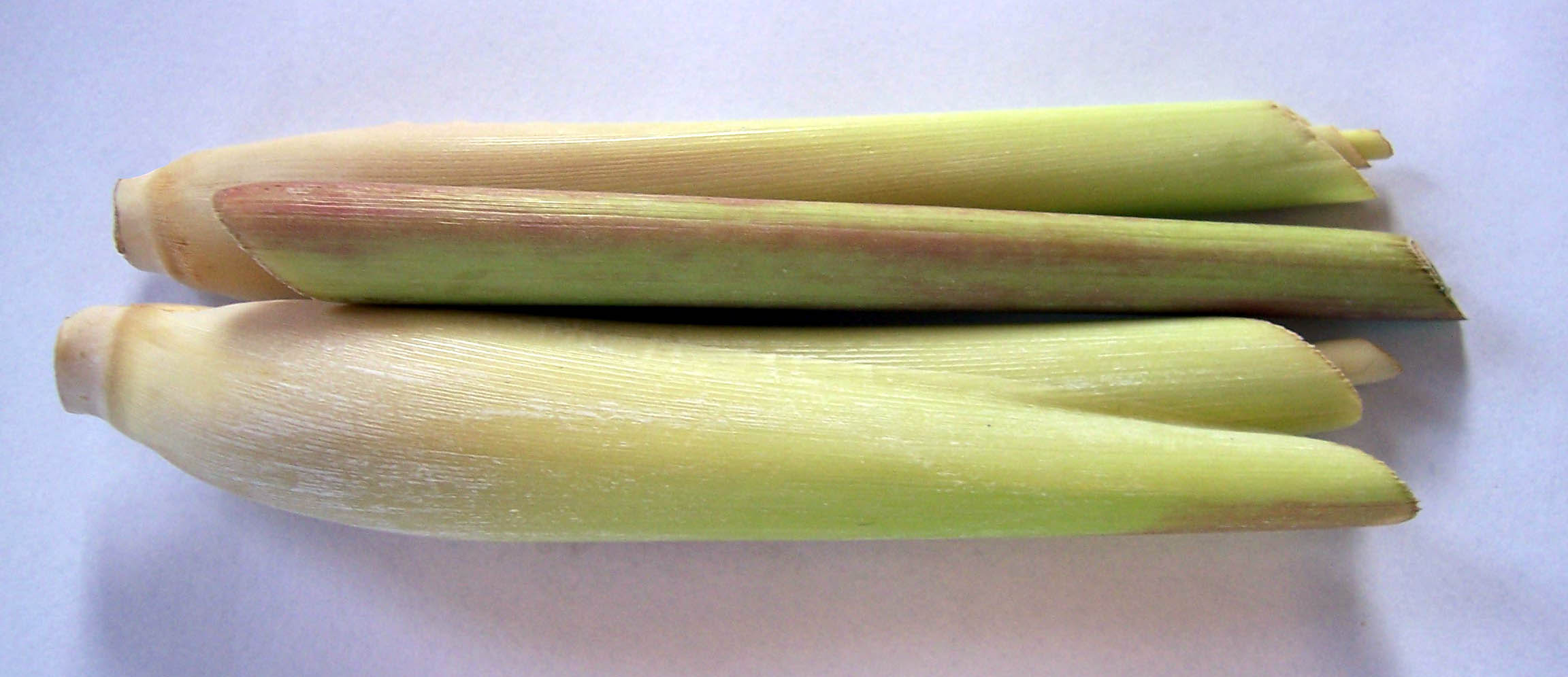 Prepared lemon grass